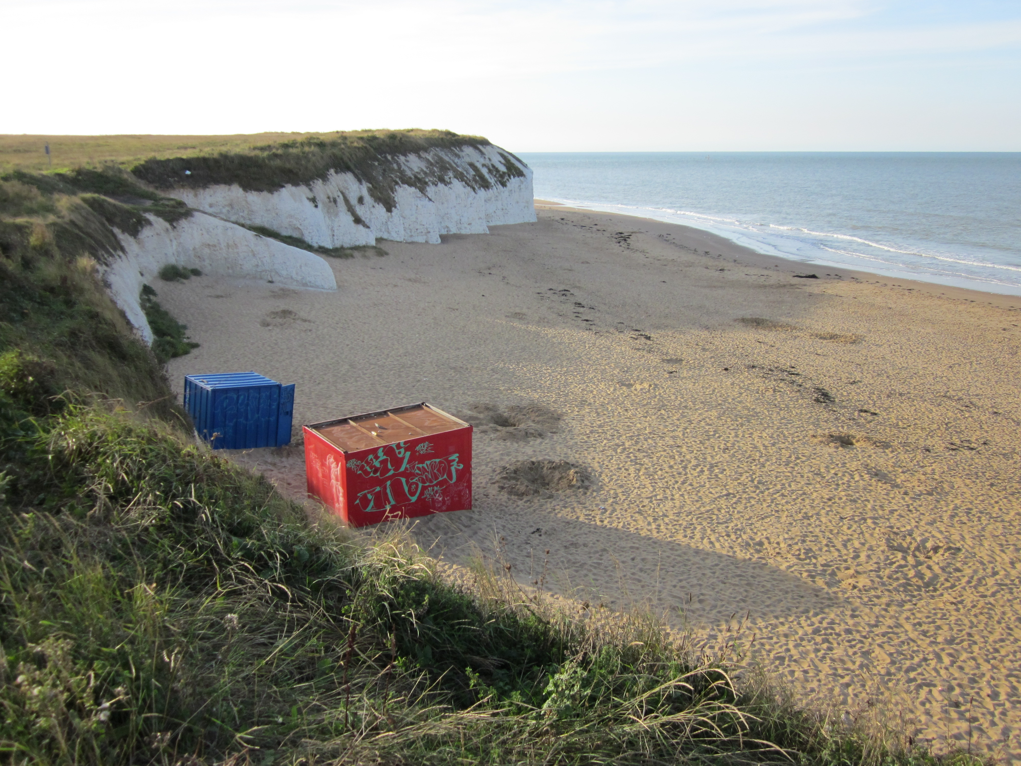 Northwest end of Botany Bay, between Margate and Broadstairs in Kent, UK.